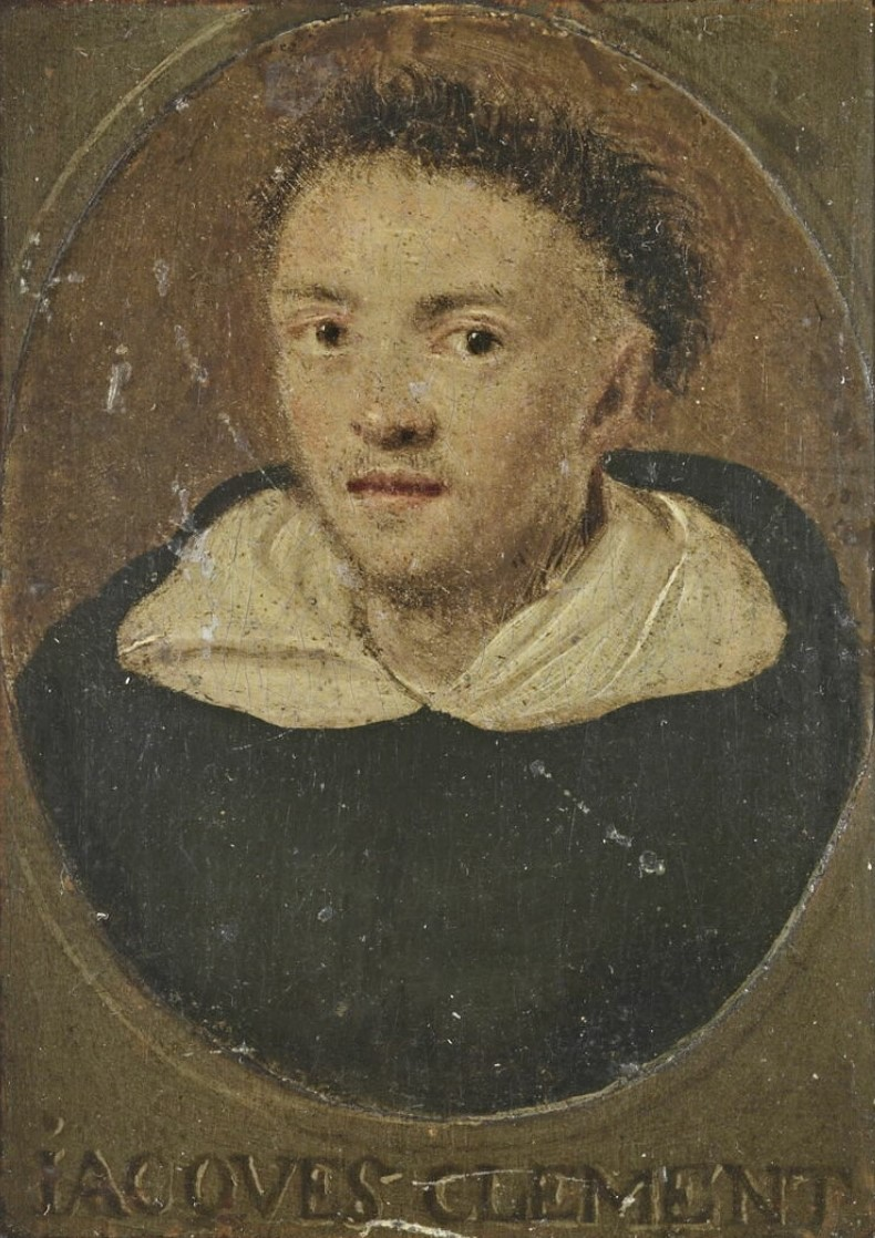 Jacques Clément (* 1567; † 1589), murderer of French king Henry III.